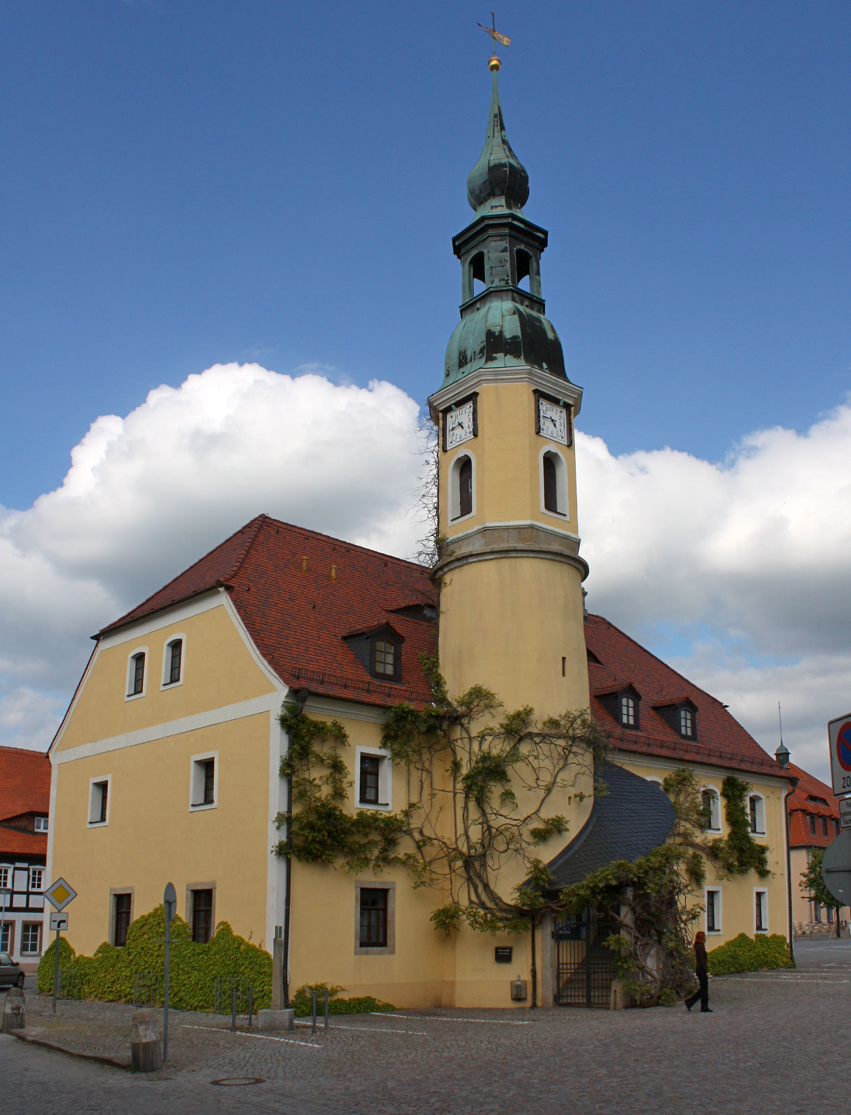 Town hall of the city Weißenberg in the district Bautzen, east Saxony, Germany.